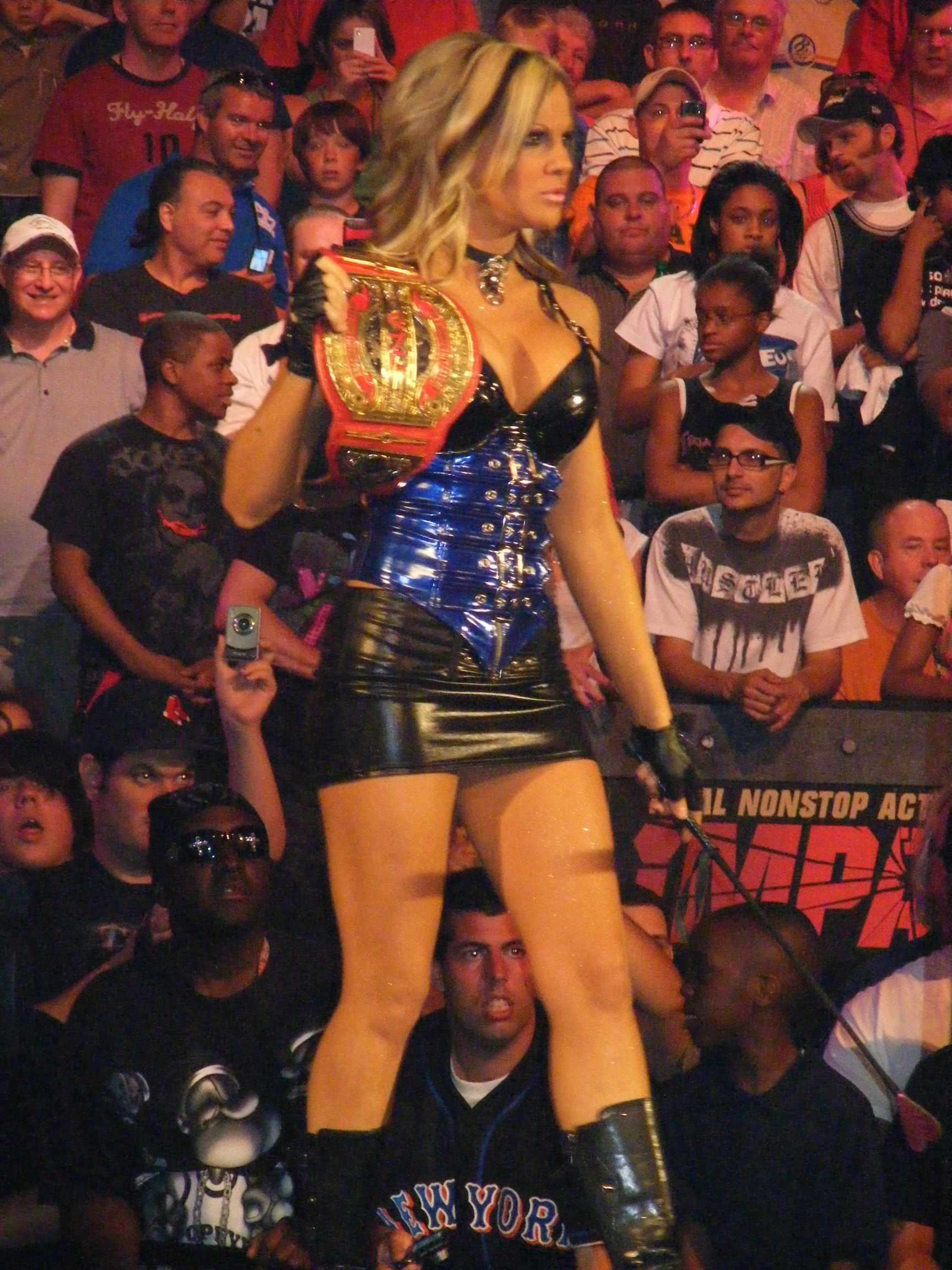 Velvet Sky, before a "Leather and Lace" match against former partner Angelina Love at a TNA Impact taping.